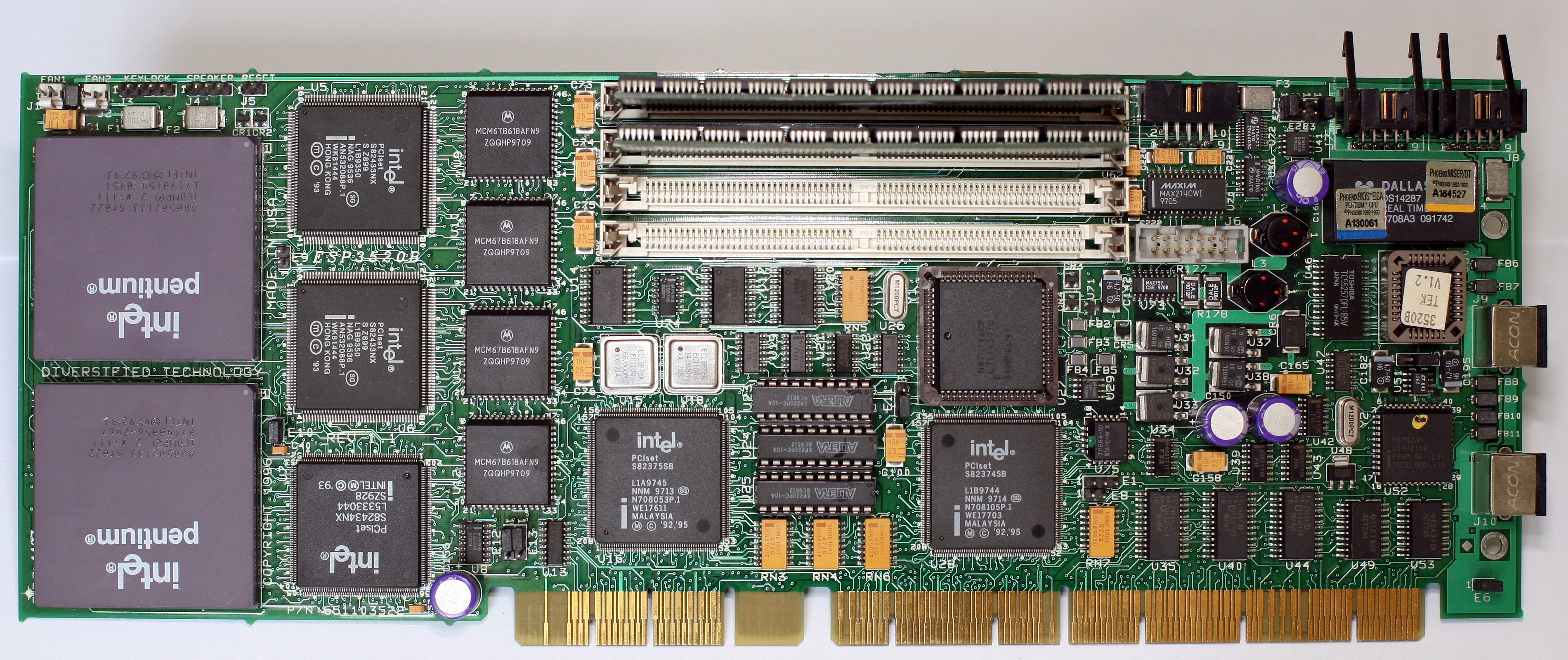 DIVERSIFIED TECHNOLOGY - ref. 651103522 Dual Pentium Single Board Computer Component side